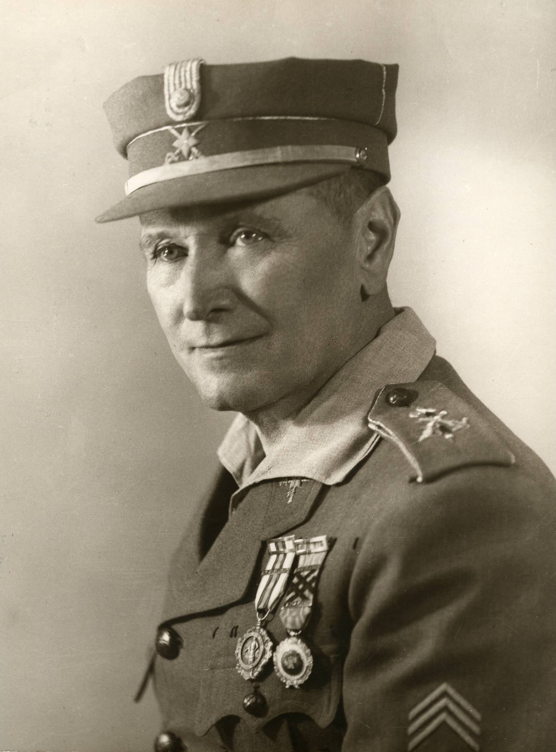 Spanish Army general Miguel Ponte